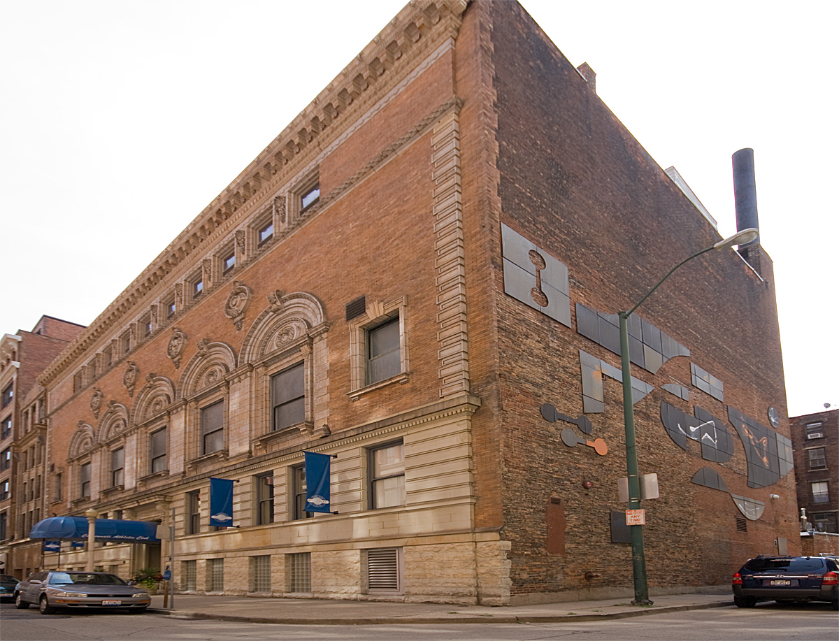 Cincinnati Athletic Club in Cincinnati, OH. Photo by Greg Hume